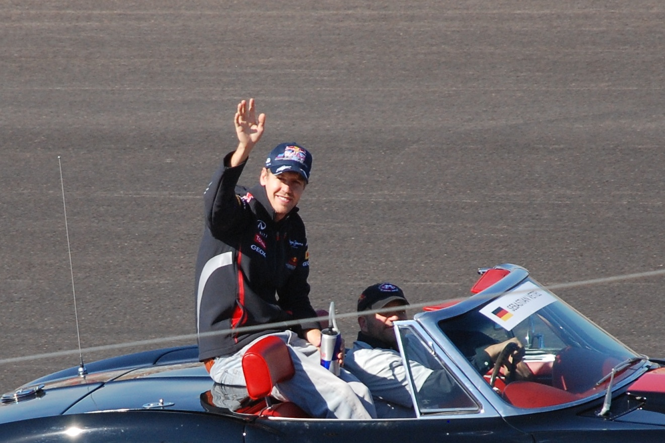 Sebastian Vettel, United States Grand Prix, Austin 2012